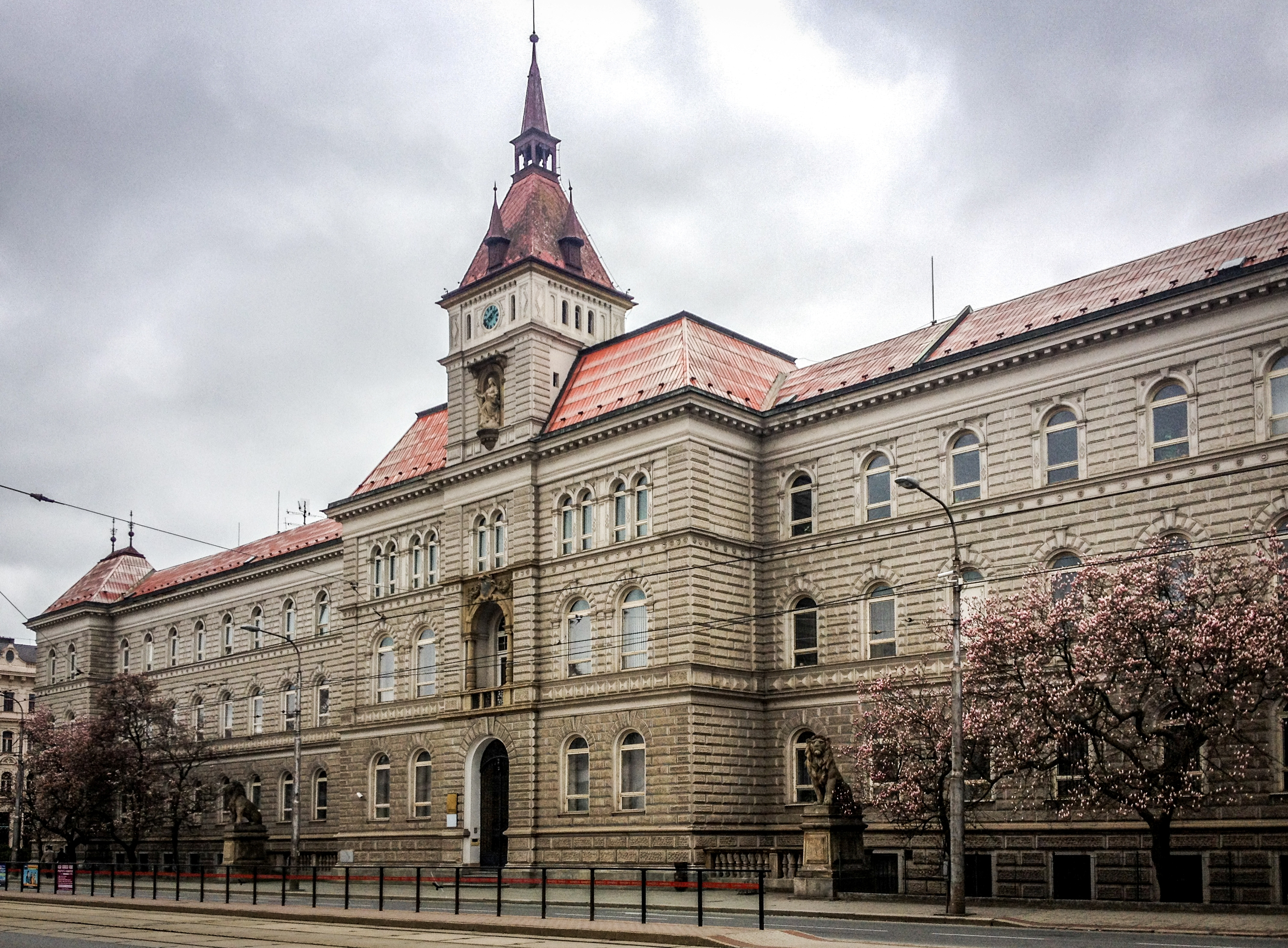 Building of District court in Olomouc